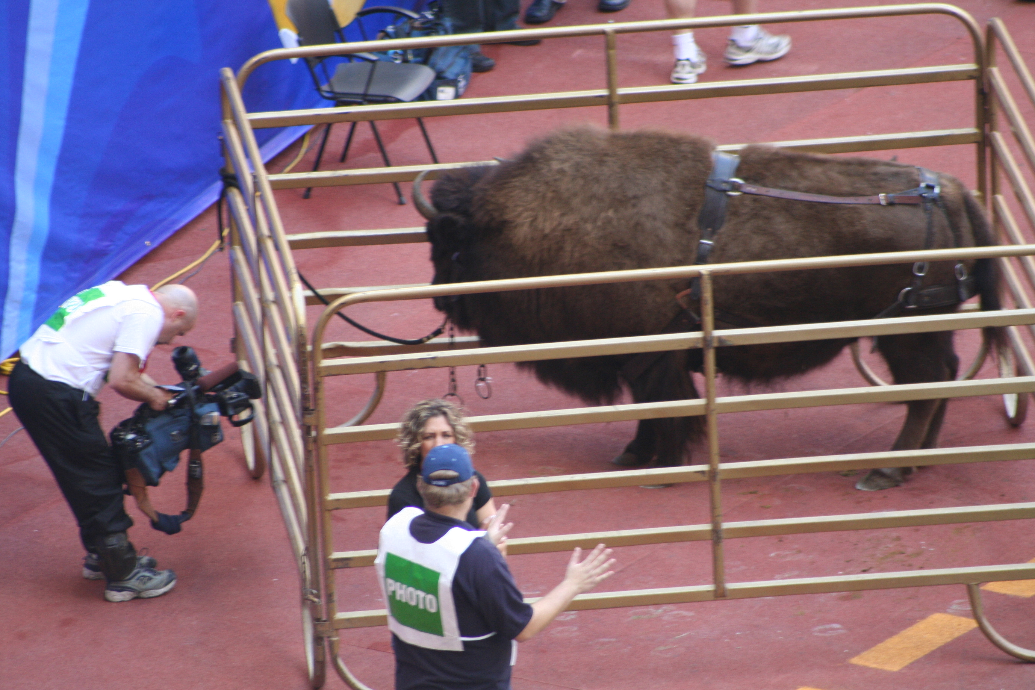 Ralphie the buffalo is the mascot of the University of Colorado. She is shown here at the Big 12 Conference football championship game in 2005 at Reliant Stadium in Houston, Texas. Photo by Johntex 2005.